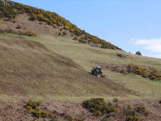 Marginal Land I was surprised first of all to hear this tractor and then see it on such a steep slope. I confess I don't know what it was doing but it seemed to be scoring the land rather than ploughing it. Perhaps someone could enlighten my ignorance.